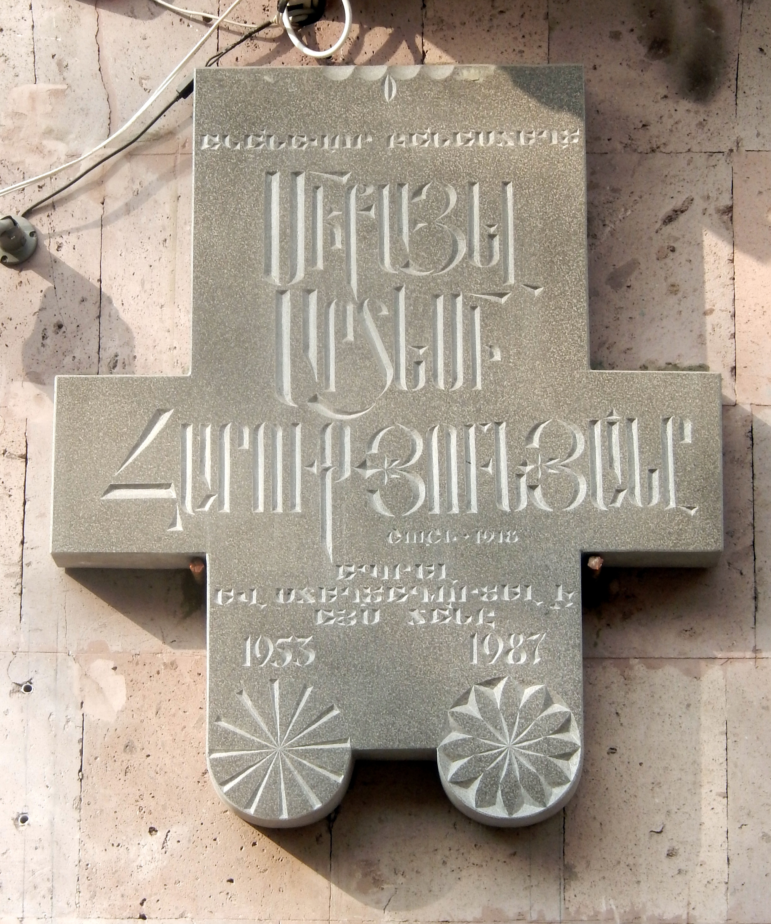 Miqayel Harutyunyan Plaque in Yerevan, Teryan 59